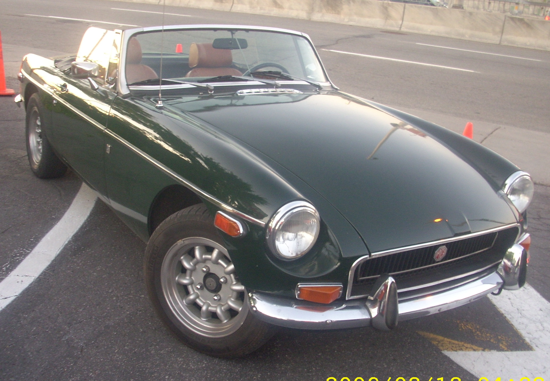 1971 MG MGB photographed in Montreal, Quebec, Canada at Gibeau Orange Julep.